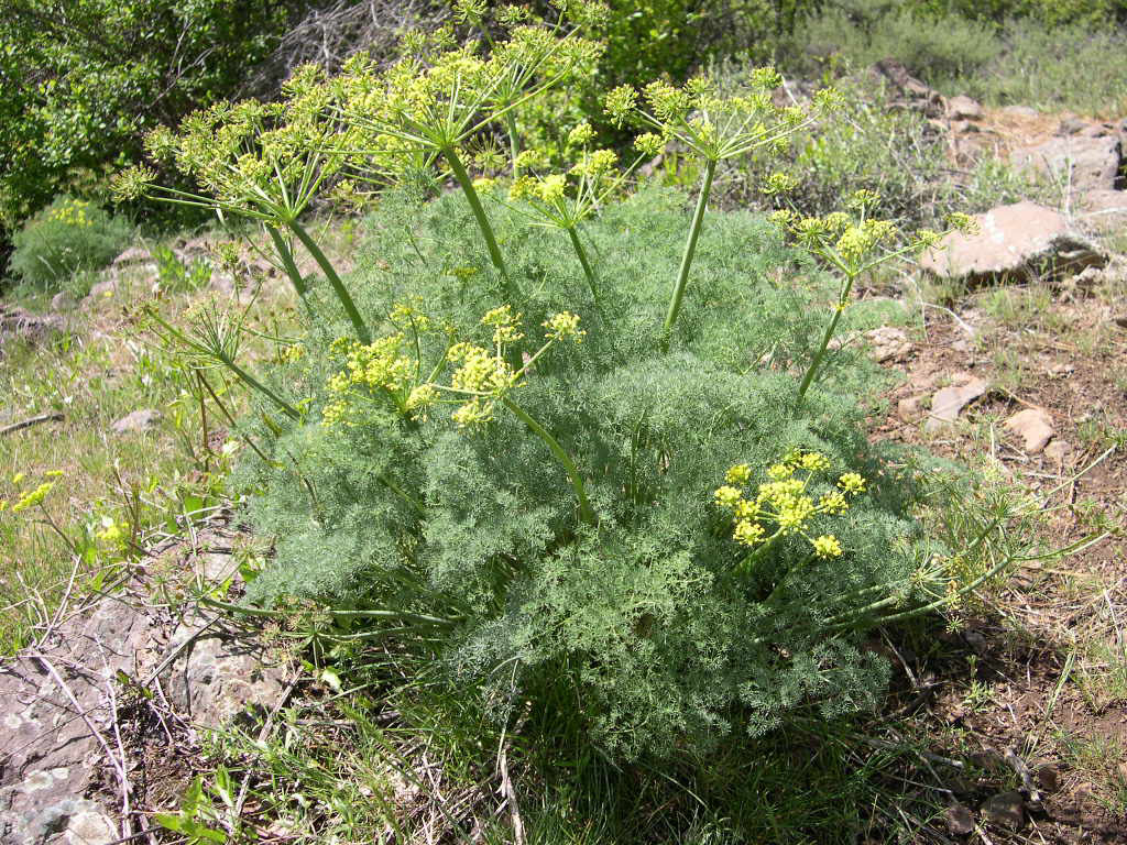 Lomatium grayi in southwest Idaho